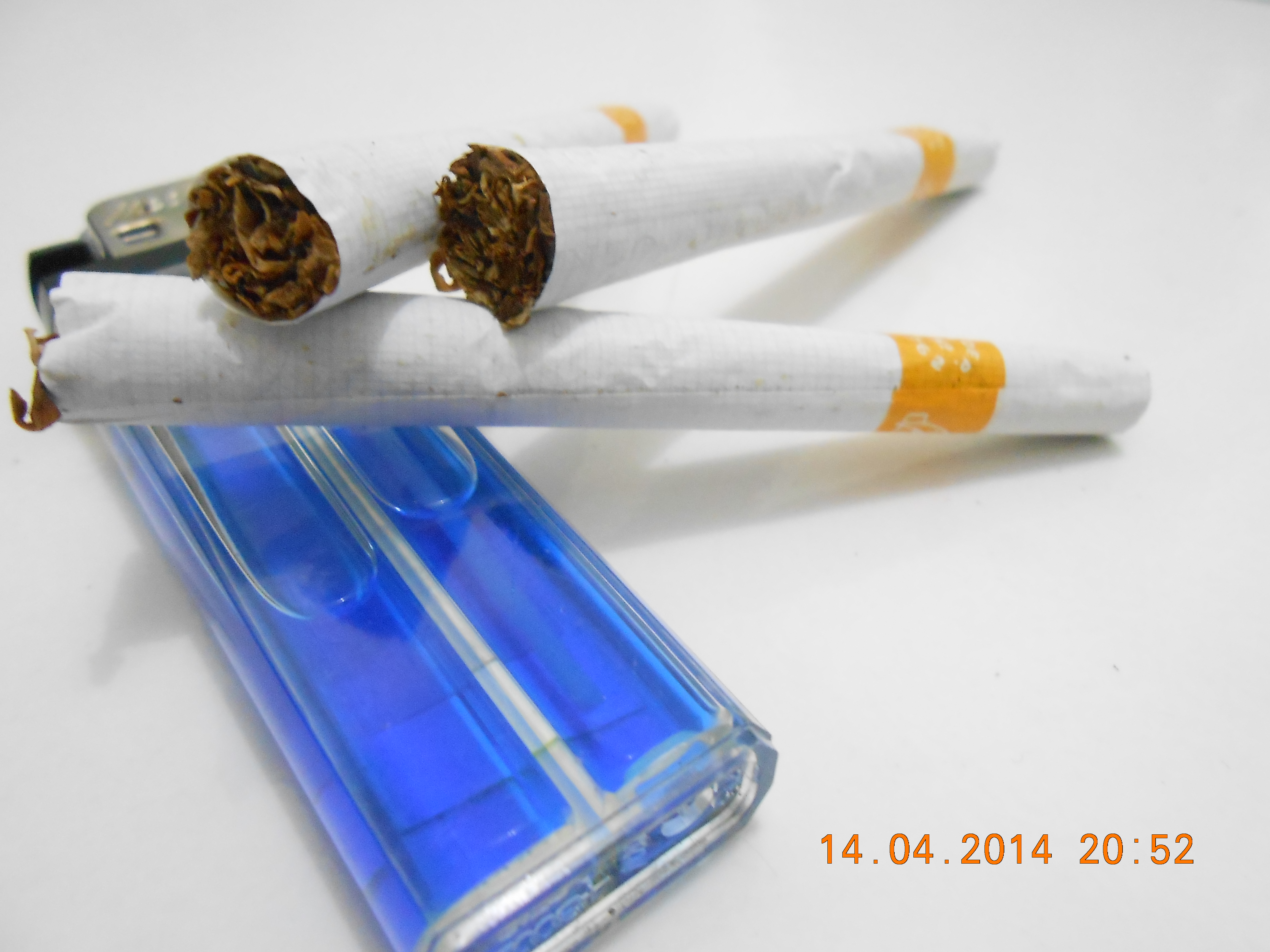 contoh rokok